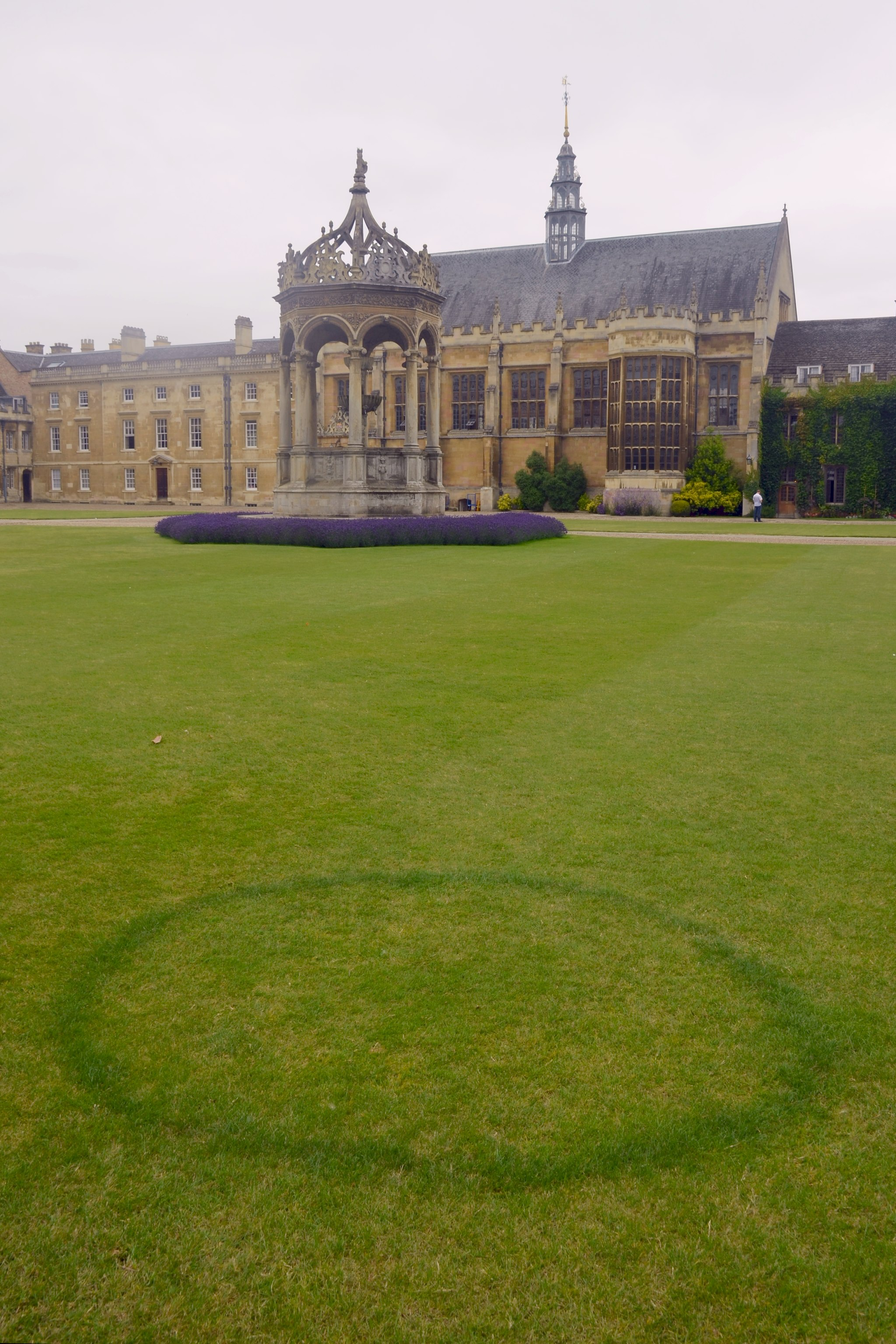 A fairy ring in the Great Court of Trinity College, Cambridge in July 2019.